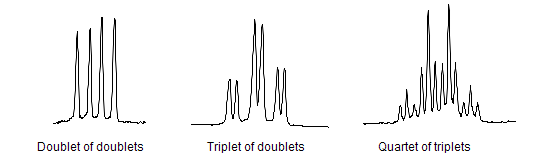 Created by owner. Actual NMR multiplets taken from real NMR spectra.